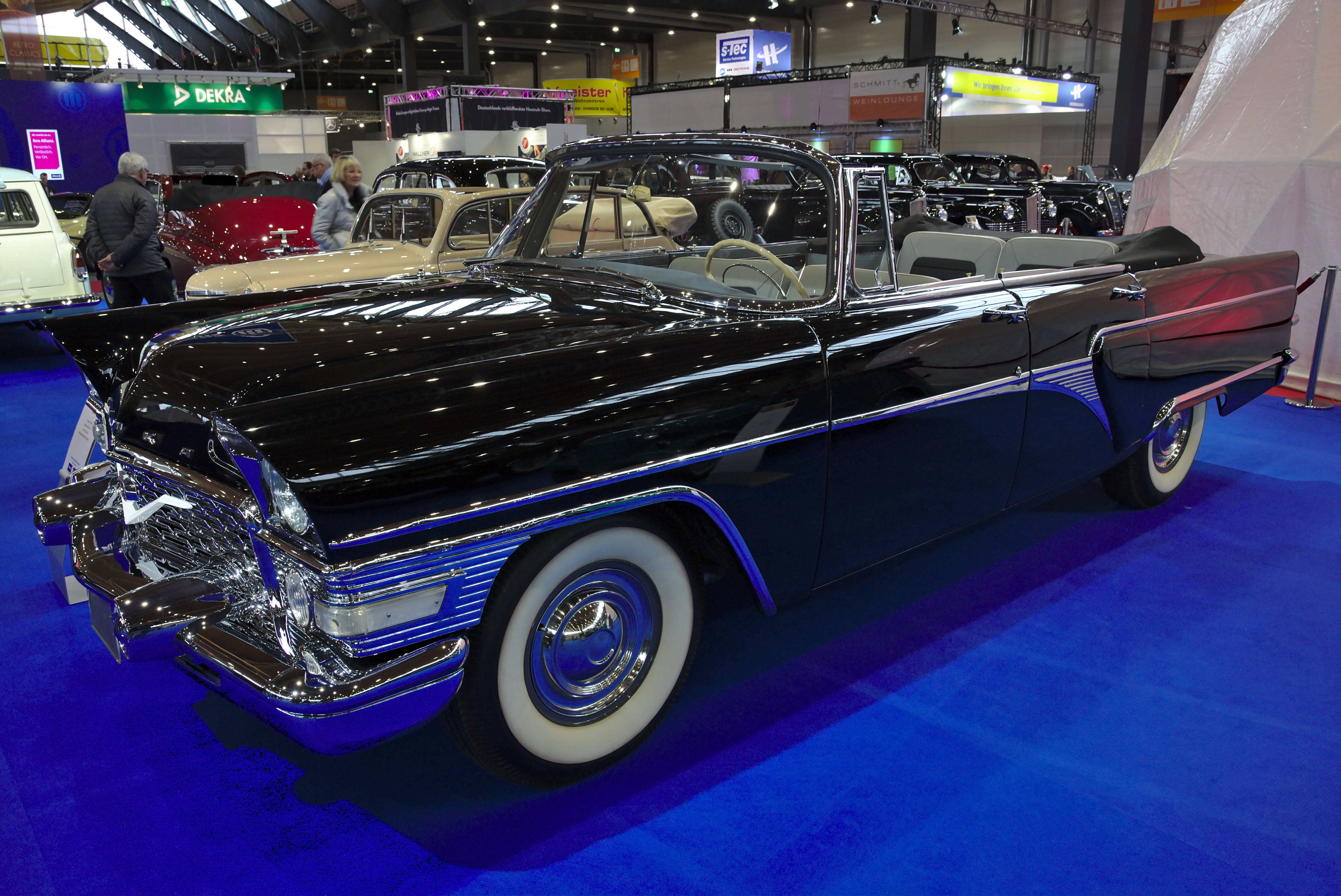 GAZ 13B Chaika at Retro Classics 2018